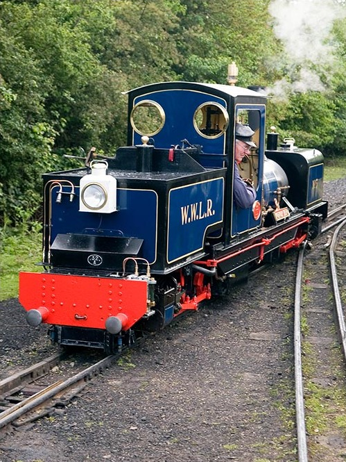 Author: Terry A. McDonald - [1] Please credit any use of this photograph. Should you require a larger file size, please contact the photographer